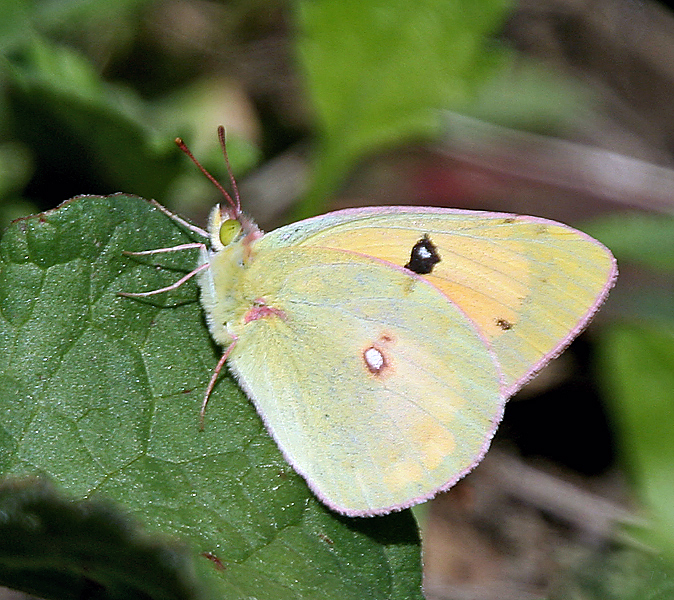 Dark Clouded Yellow Colias croceus. At Guna Pani (8000 ft.) in Kullu Distt. of Himachal, India.